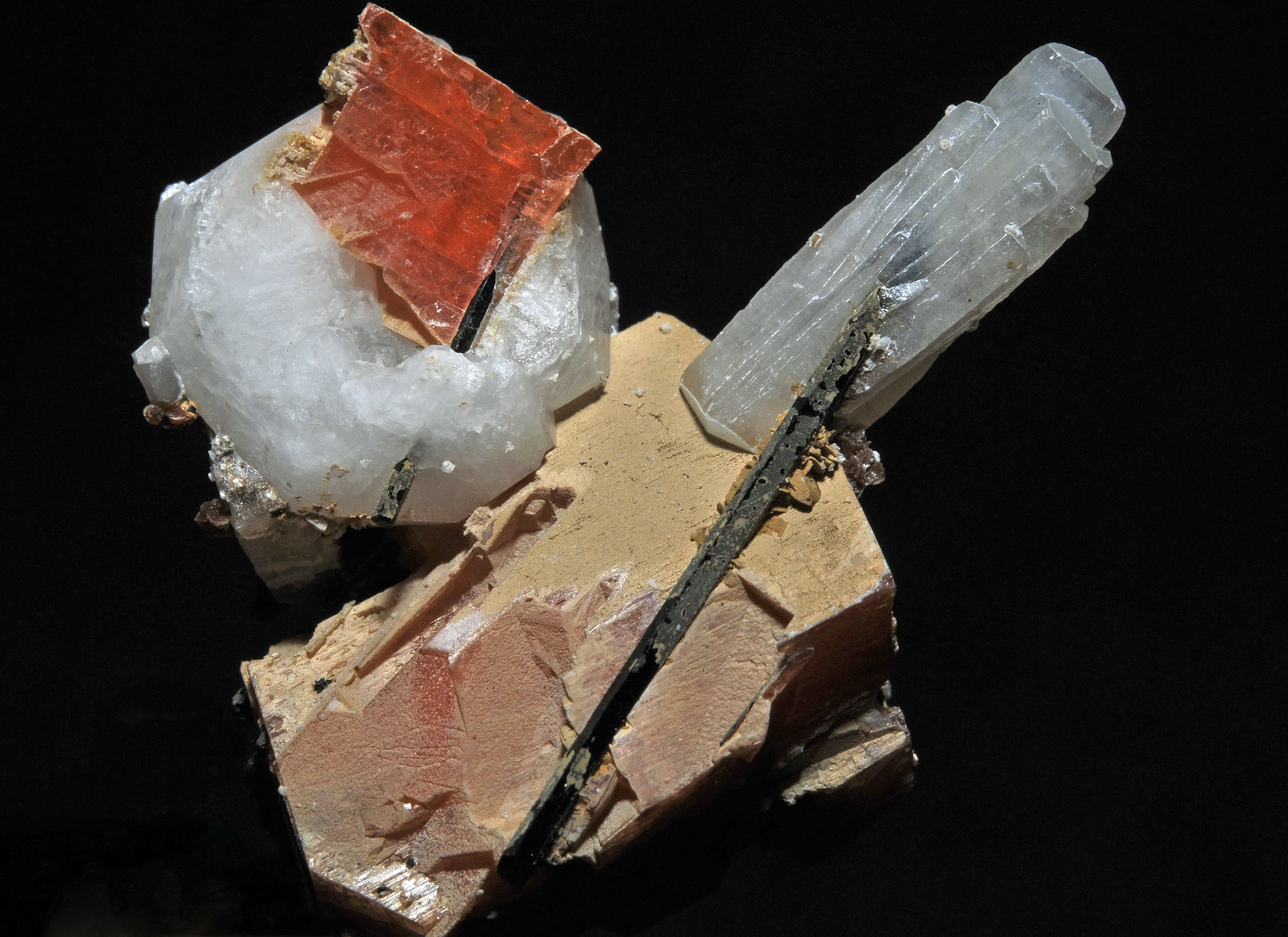 analcime, sérandite, aegirine, natrolite : Mont Saint-Hilaire, La Vallée-du-Richelieu RCM, Montérégie, Québec, Canada